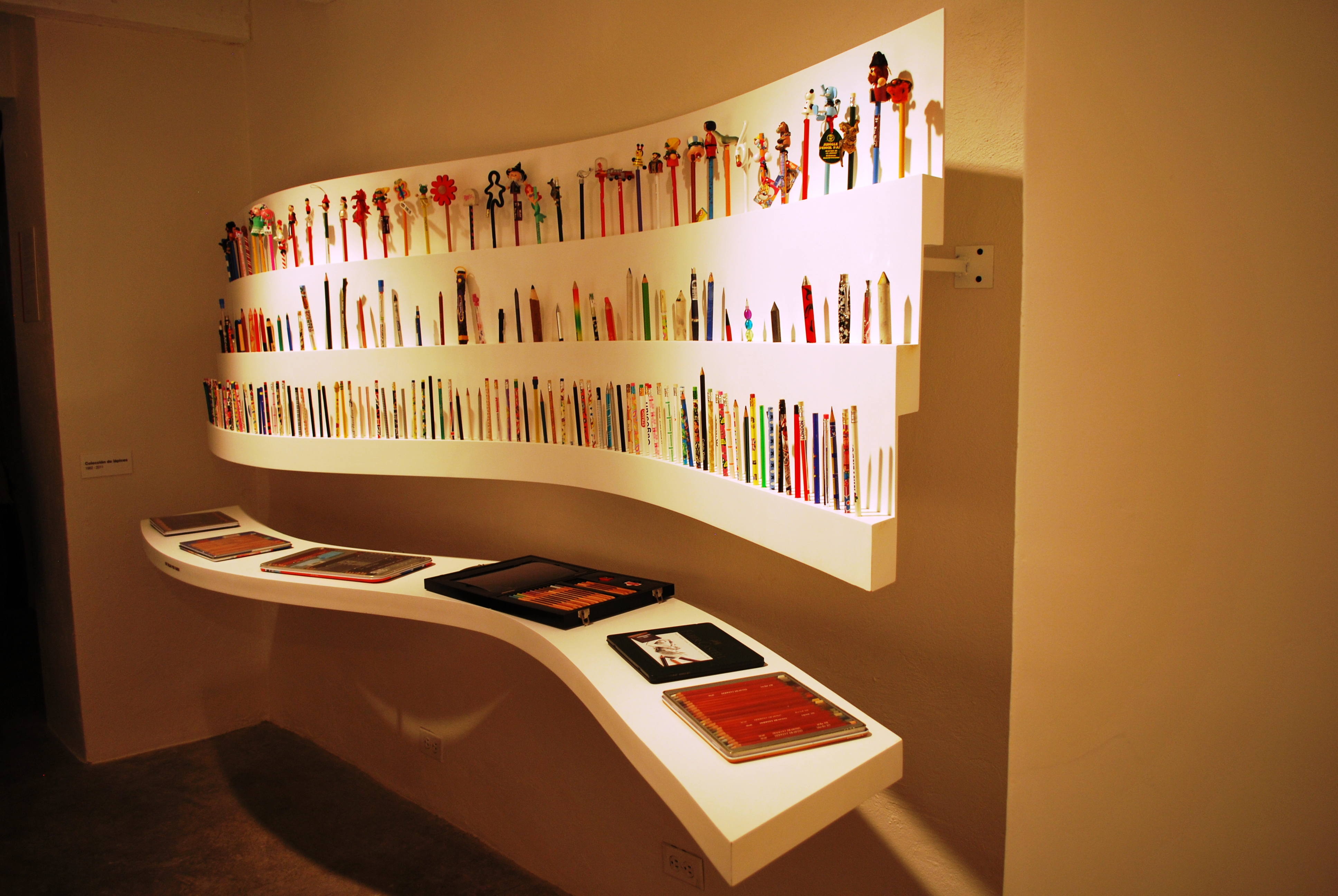 Display of pencils as part of the El MODO de Tassier exhibit at the Museo del Objeto del Objeto in Mexico City